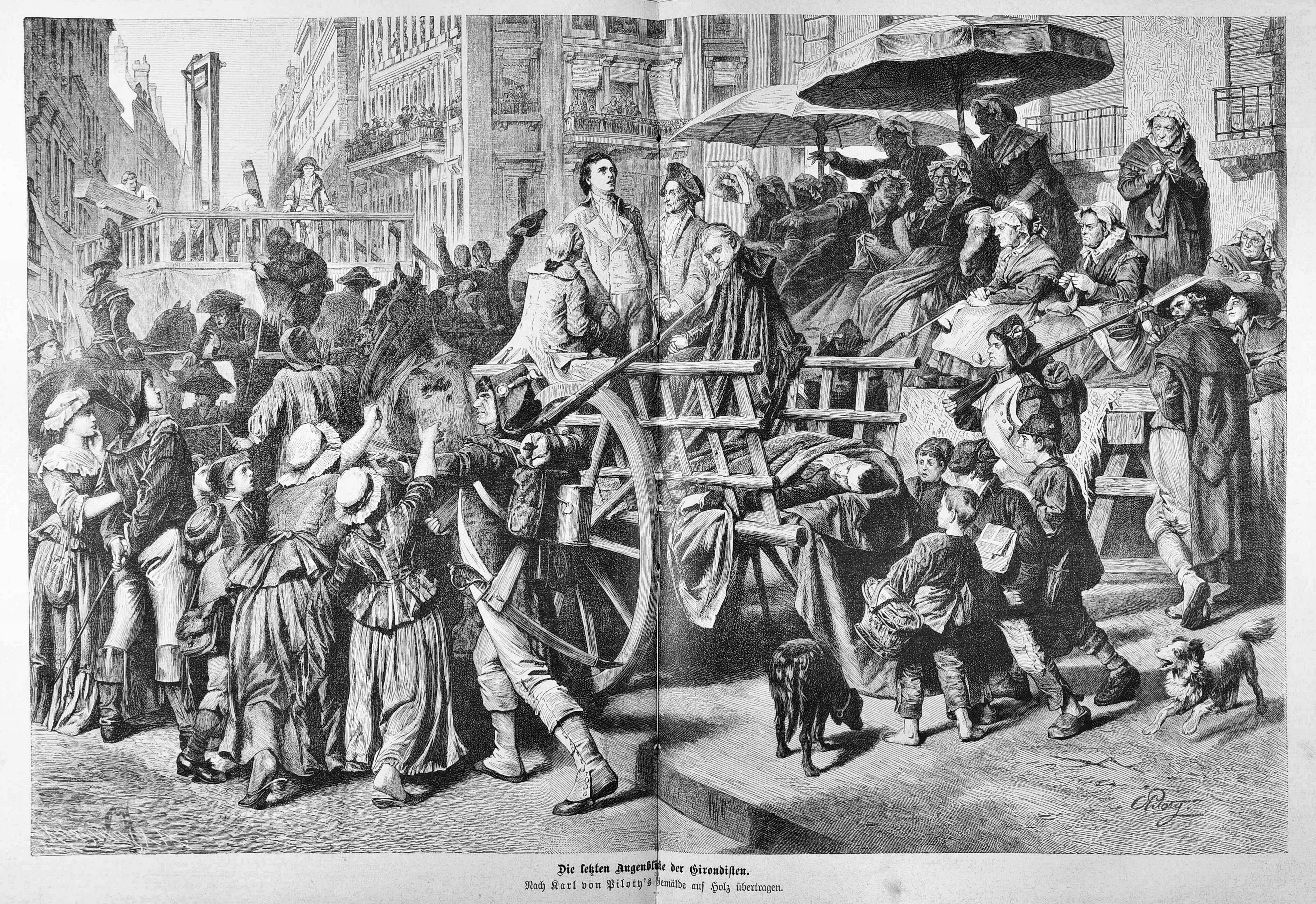 caption: "Die letzten Augenblicke der Girondisten. Nach Karl von Piloty’s Gemälde auf Holz gezeichnet."